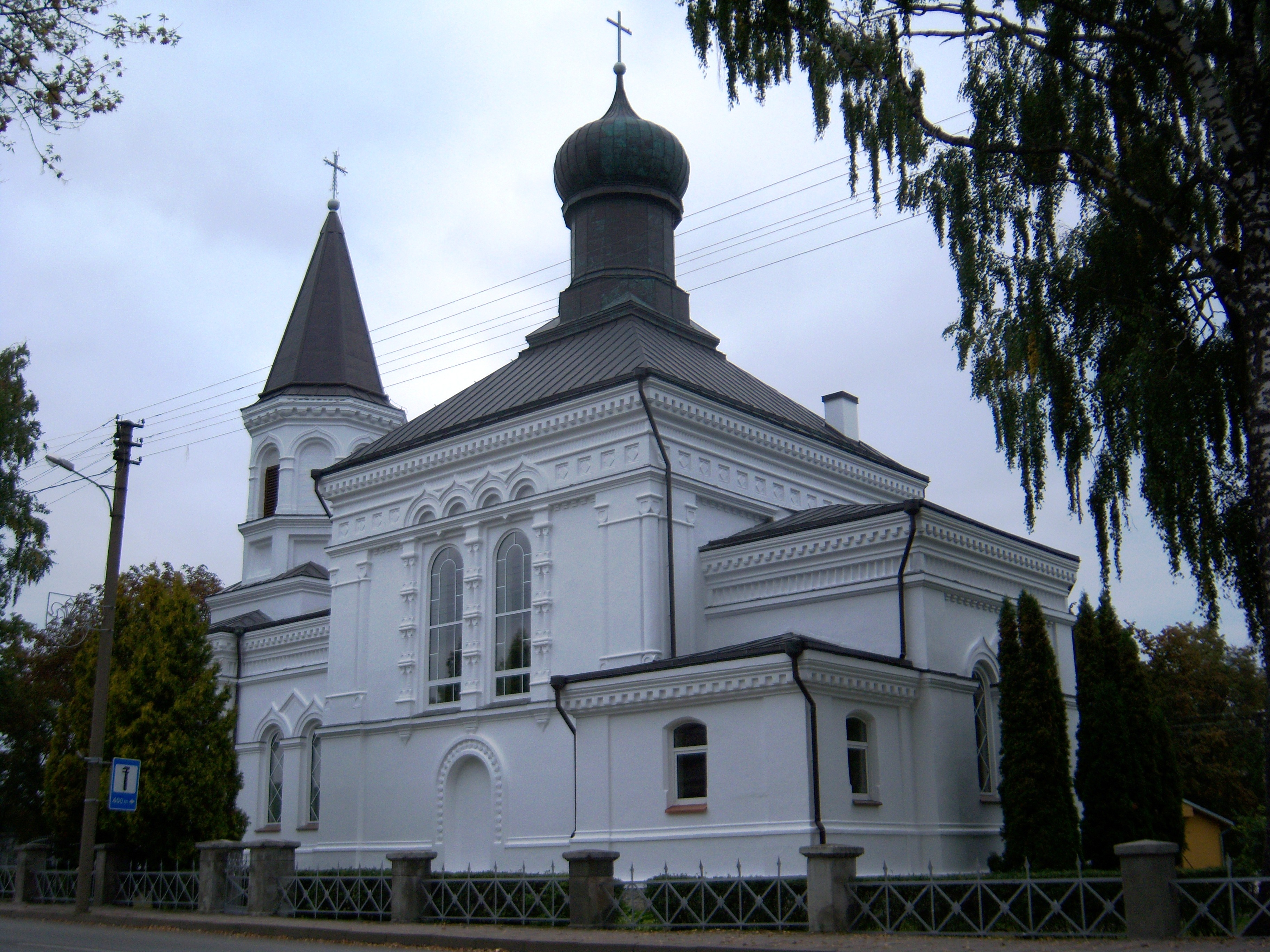 Roman Catholic St. Cross Church, Vilkaviškis, Lithuania